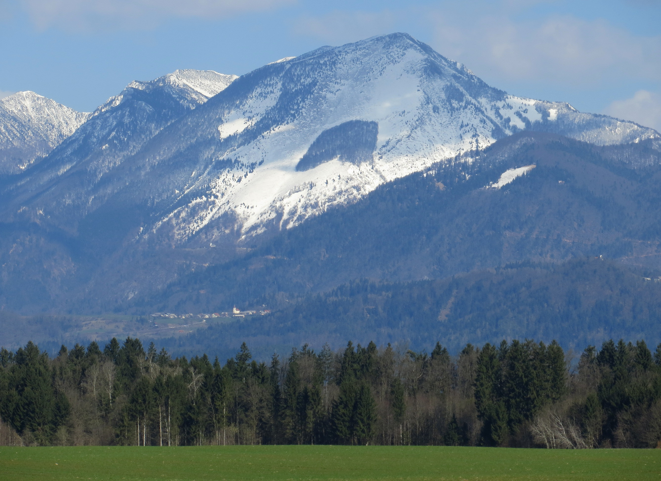 The Devil's Woods (Sln. Hudičev boršt), a forested area below Middle Peak (Sln. Srednji vrh) in Mače, Municipality of Preddvor, Slovenia